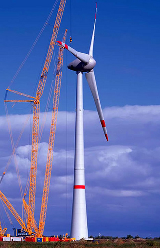 Enercon E-126